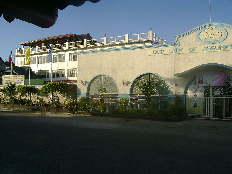 Sta Rosa Building